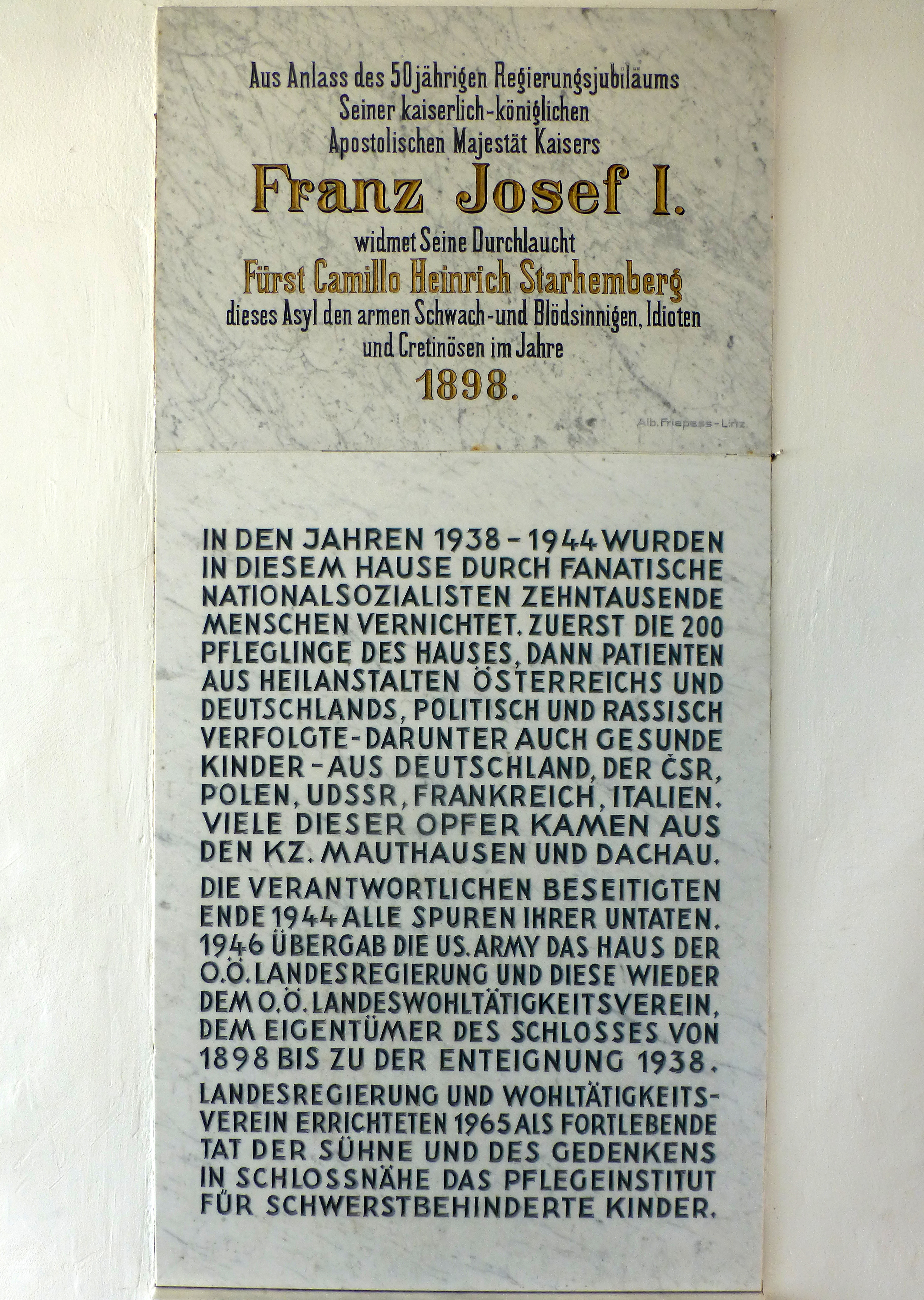 Commemorative plaques in the Hartheim Castle, Alkoven, Upper Austria